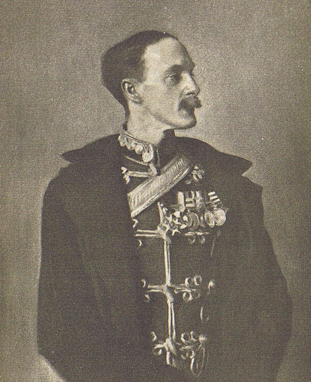 Lieutenant General Sir Frederick Walter Kitchener KCB (26 May 1858 - 6 March 1912) British solider and Governor and Commander in Chief of Bermuda (1908-1912). Brother of Horatio Herbert Kitchener